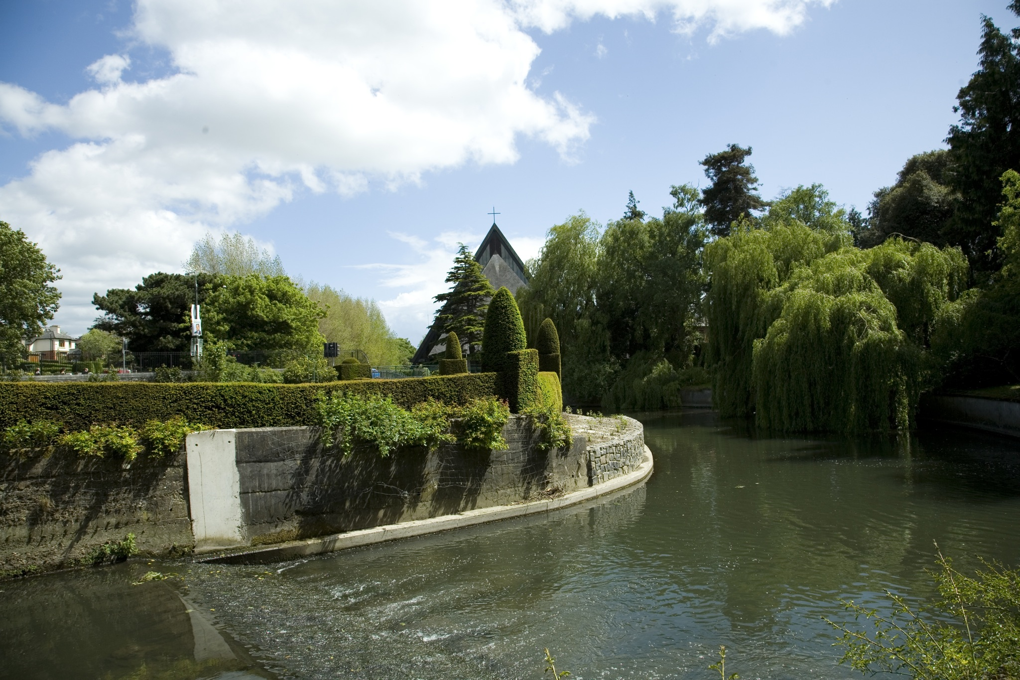 Irish National Botanic Gardens, Glasnevin, Dublin, Ireland.